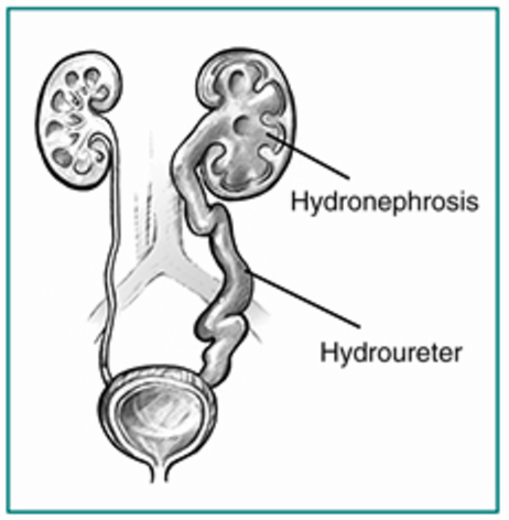 Hydronephrosis and hydroureter